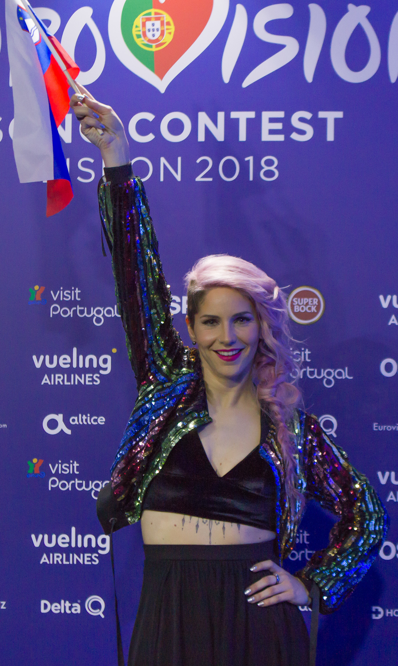 At the 2018 Semi Final 2 qualifiers press conference